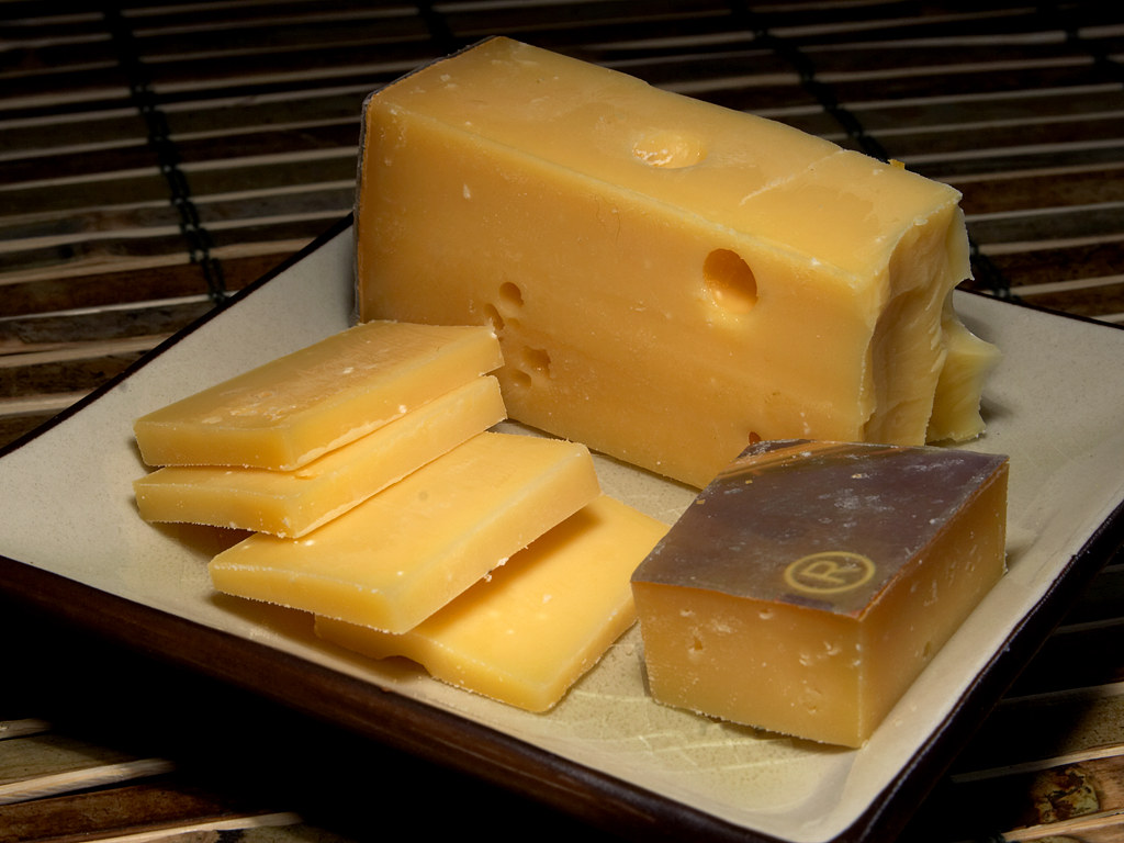 Beemster Classic Gouda cheese